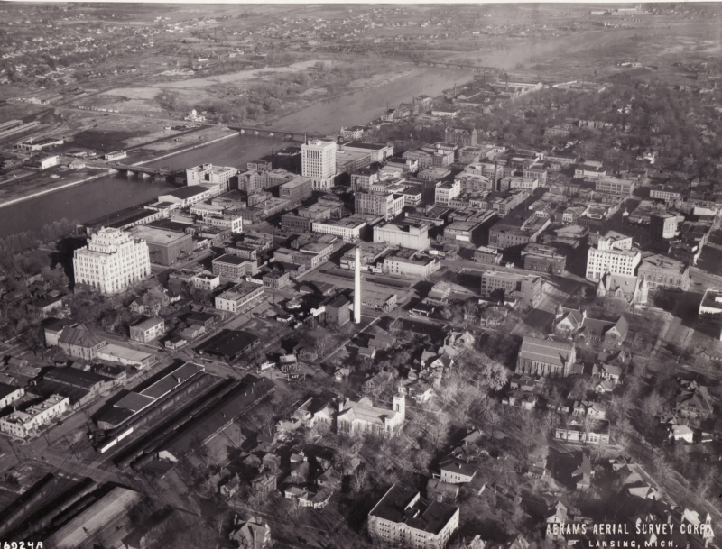 East side of Saginaw River, Downtown Saginaw 1930